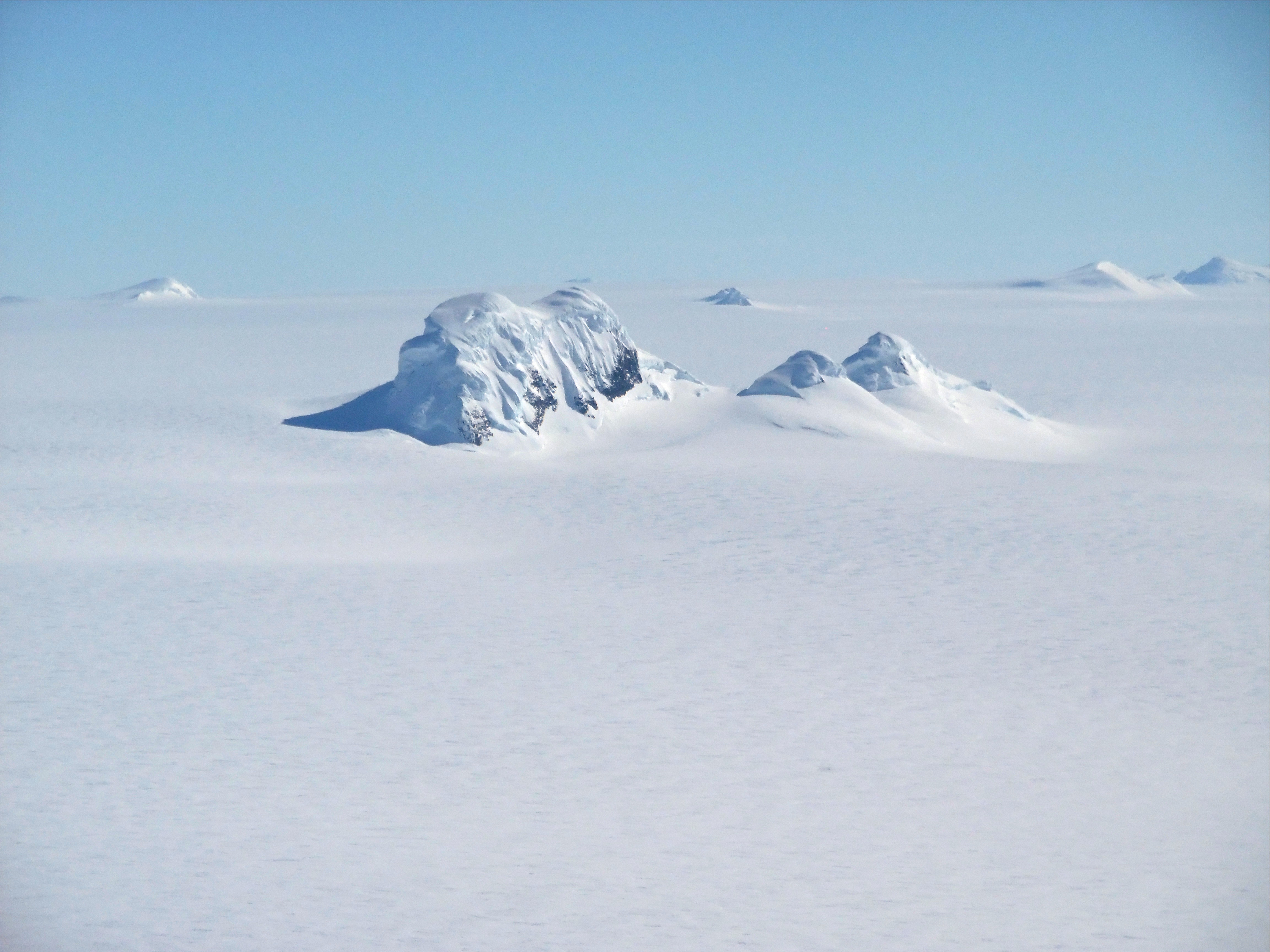 Mountain peaks through the ice cover on Thurston Island off of western Antarctica as seen on the IceBridge flight on Nov. 5, 2014. Image Credit: NASA/Jim Yungel NASA’s Operation IceBridge collected some rare images on a flight out of Punta Arenas, Chile on Nov. 5, 2014, on a science flight over western Antarctica dubbed Ferrigno-Alison-Abbott 01. The crew snapped a few shots of a calving front of the Antarctic ice sheet. This particular flight plan was designed to collect data on changes in ice elevation along the coast near the Ferrigno and Alison ice streams, on the Abbot Ice Shelf, and grounded ice along the Eights Coast.